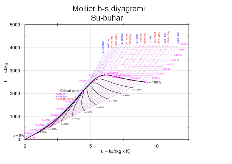 The Mollier Enthalpy-Entropy Diagram for water and steam